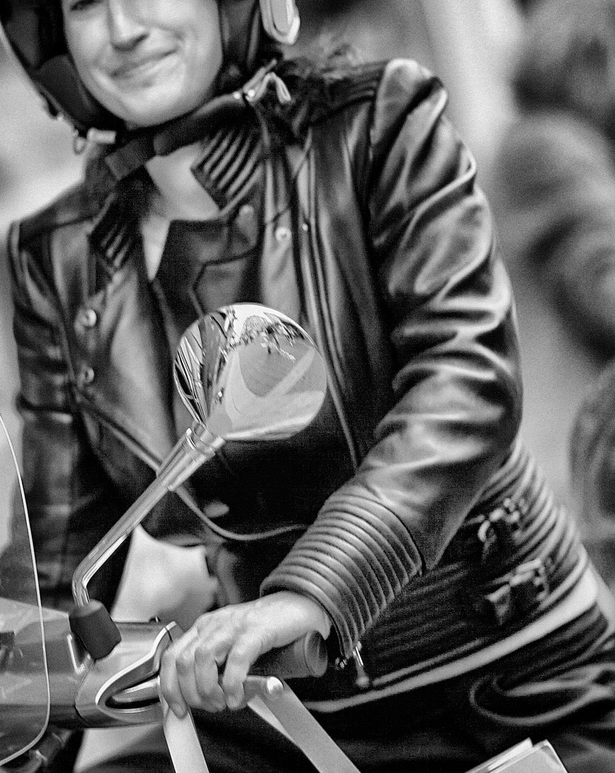 Woman wearing leather jacket on Vespa scooter in Antwerp, Belgium. Since I do not believe in the principle of copyright all my shots can be downloaded and used free at will without any prior consent.